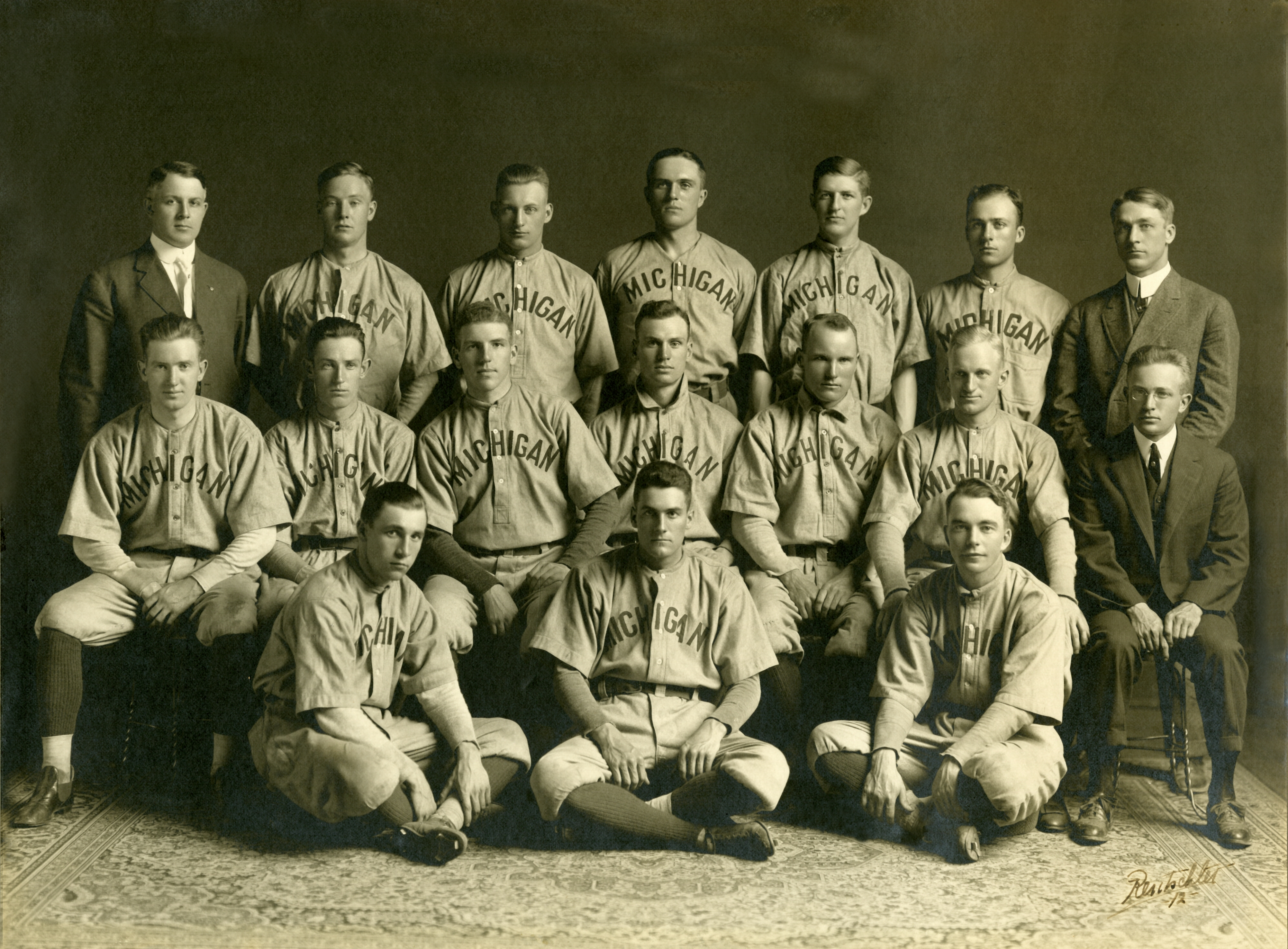 1912 University of Michigan baseball teamBack row: Philip Bartelme (athletic director), Perry Howard (1st base), Robert Snadjr (2nd base), Miller Pontius (1st base), Emery Munson (left field), Roy Baribeau (pitcher), Branch Rickey (coach)Middle row: Francis Scully (3rd base), Howard Smith (pitcher), Goodloe Rogers (catcher), Elmer Mitchell (captain, center field), Joseph Bell (right field), Cecil Corbin (pitcher), Earl F. Good (student manager)Front row: John "Doc" Lavan (short stop), Edmund Blackmore (3rd base), Donald Duncanson (2nd base)